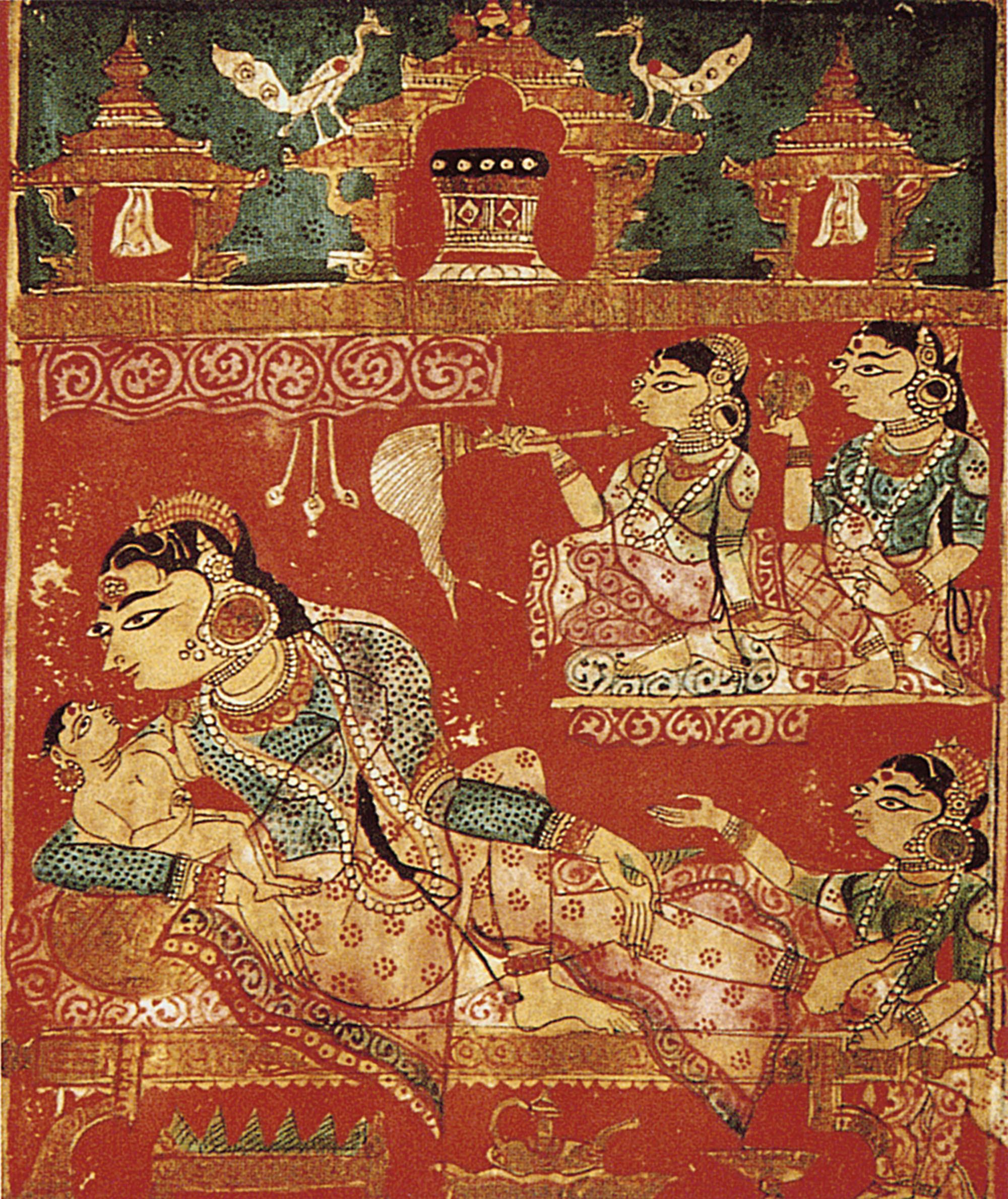 Detail of a leaf with, The Birth of Mahavira, from the Kalpa Sutra, c.1375-1400. gouache on paper. Indian.